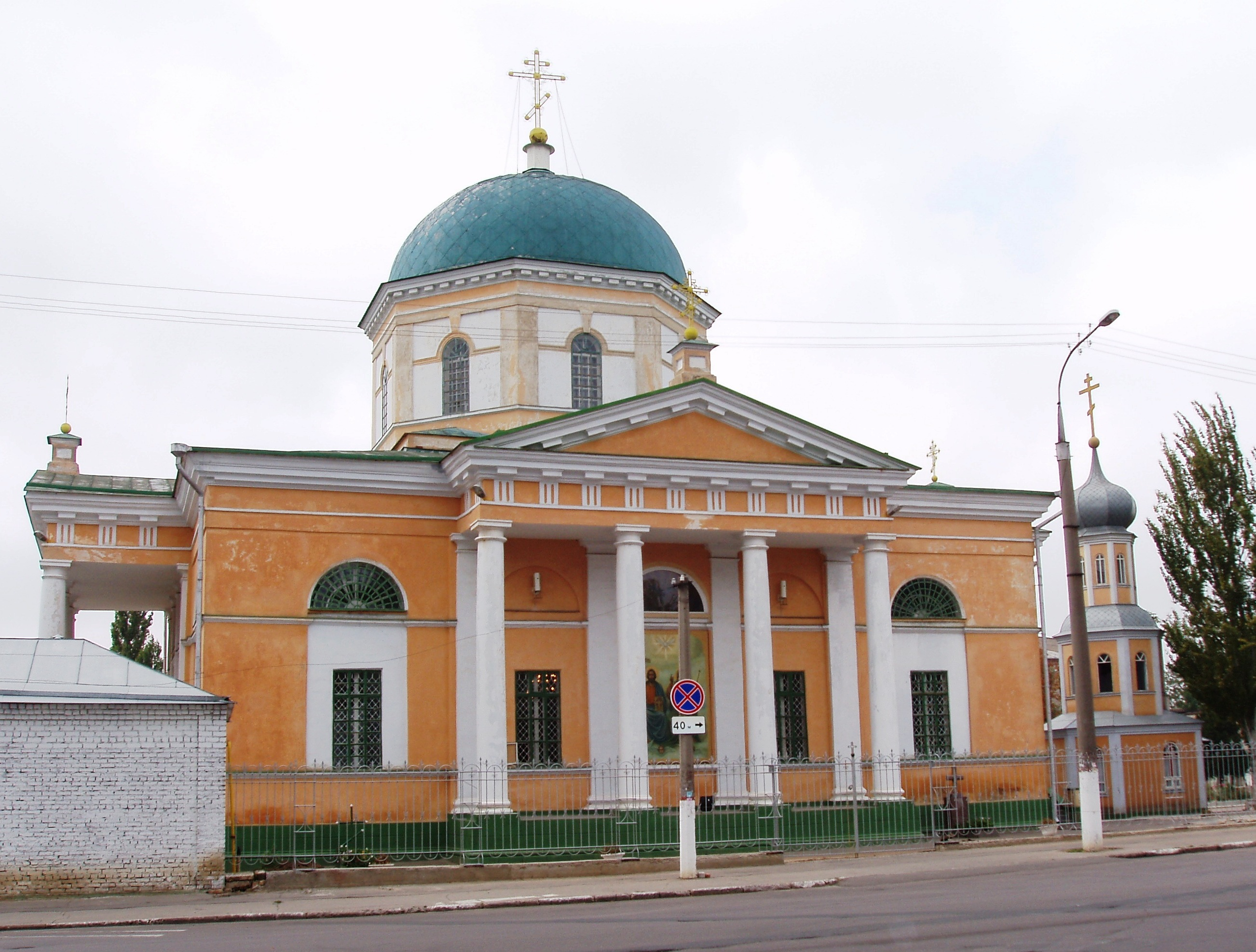 Kherson street